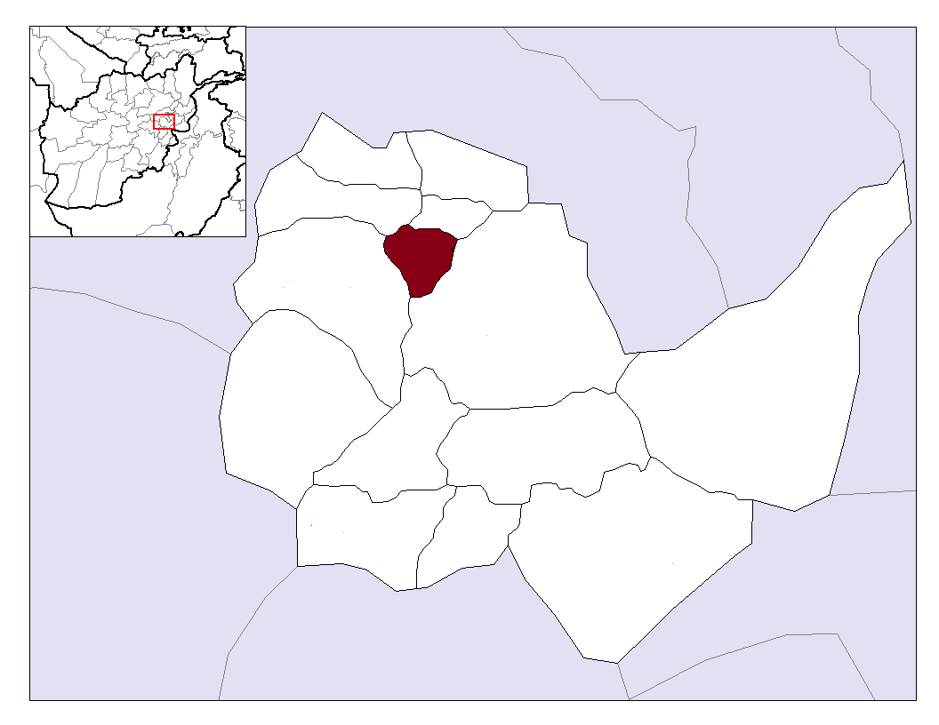 District locator in Kabul Province